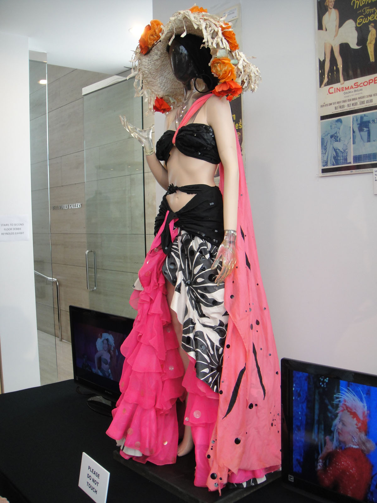 Marilyn Monroe "Vicky" tropical outfit from "Heat Wave" number from "There's No Business Like Show Business" while on the background there is "The Seven Year Itch" poster at the Debbie Reynolds Auction Breaks Up Historic Hollywood Collection (The Paley Center for Media in Beverly Hills, Los Angeles, CA, USA).